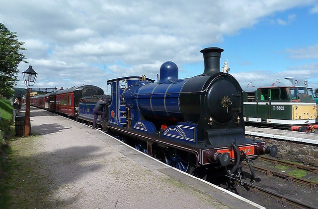 Caledonian Railway History